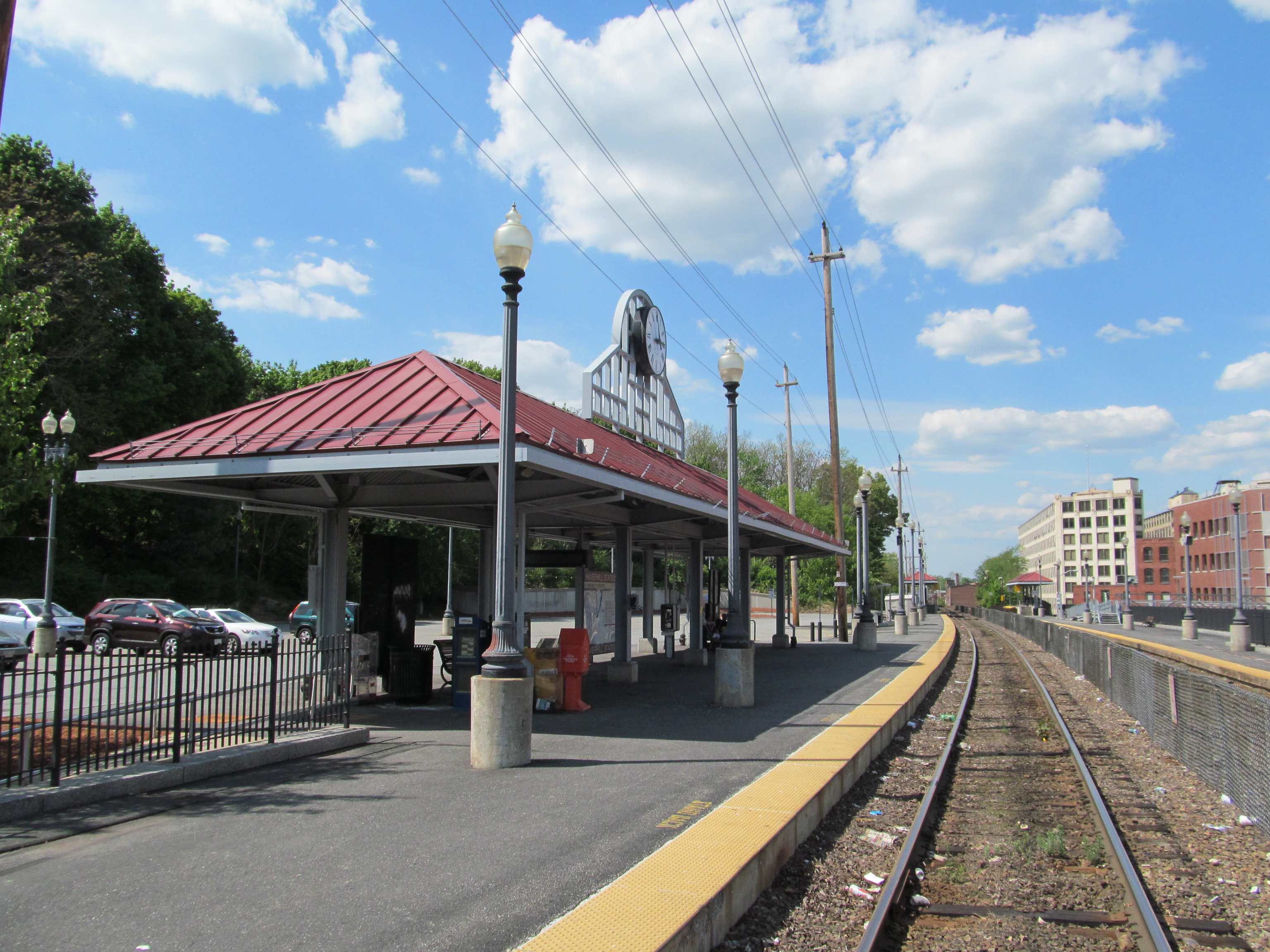 Haverhill MBTA Station, Haverhill Massachusetts